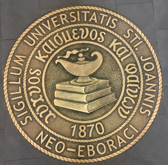 The seal of St. John's University in New York City. The seal is set in the floor of a campus building